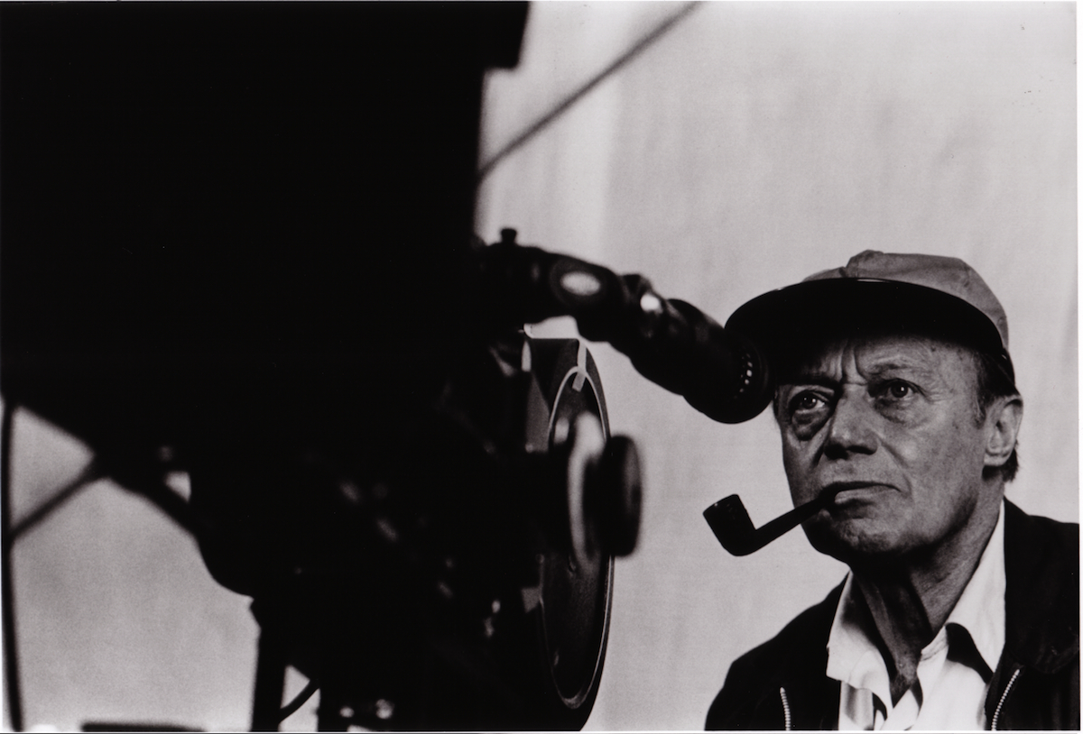 Picture of cinematographer Jack Cardiff behind a camera smoking a pipe.